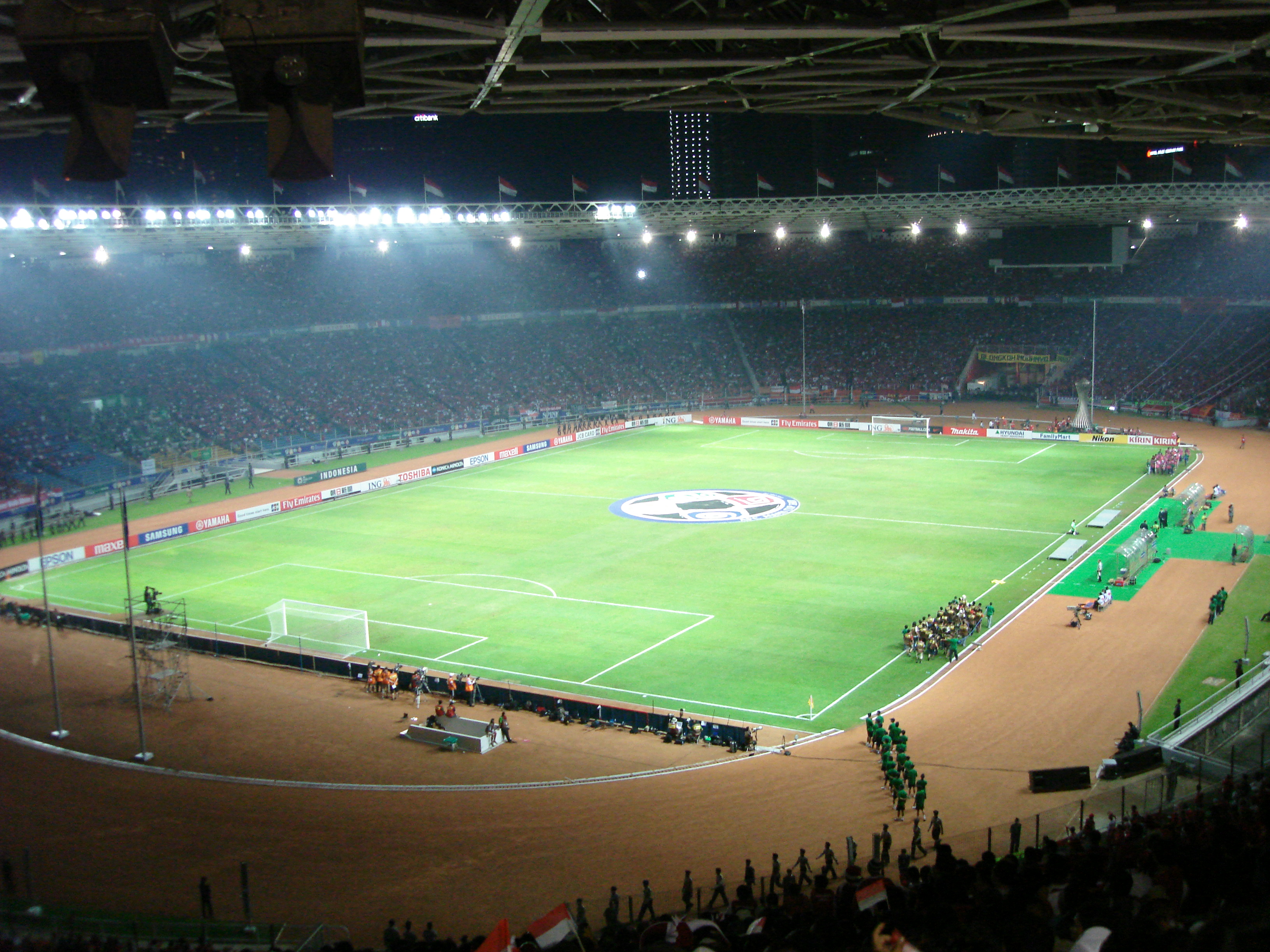 Gelora Bung Karno (Jakarta, Indonesia) Indonesia V Saudi Arabia (Asian Cup, 2nd Group Match)